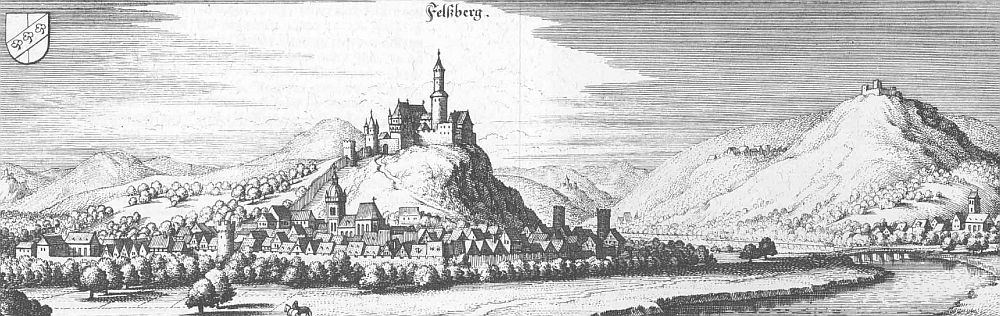 This is a scan of the historical document: Title: Felsberg - Topographia Hassiae language: german It shows the castle and city of Felsberg (center), the Heiligenberg with its fortification (extreme right) and the Eppenberg monastery behind it